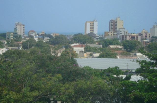 vista de riohacha